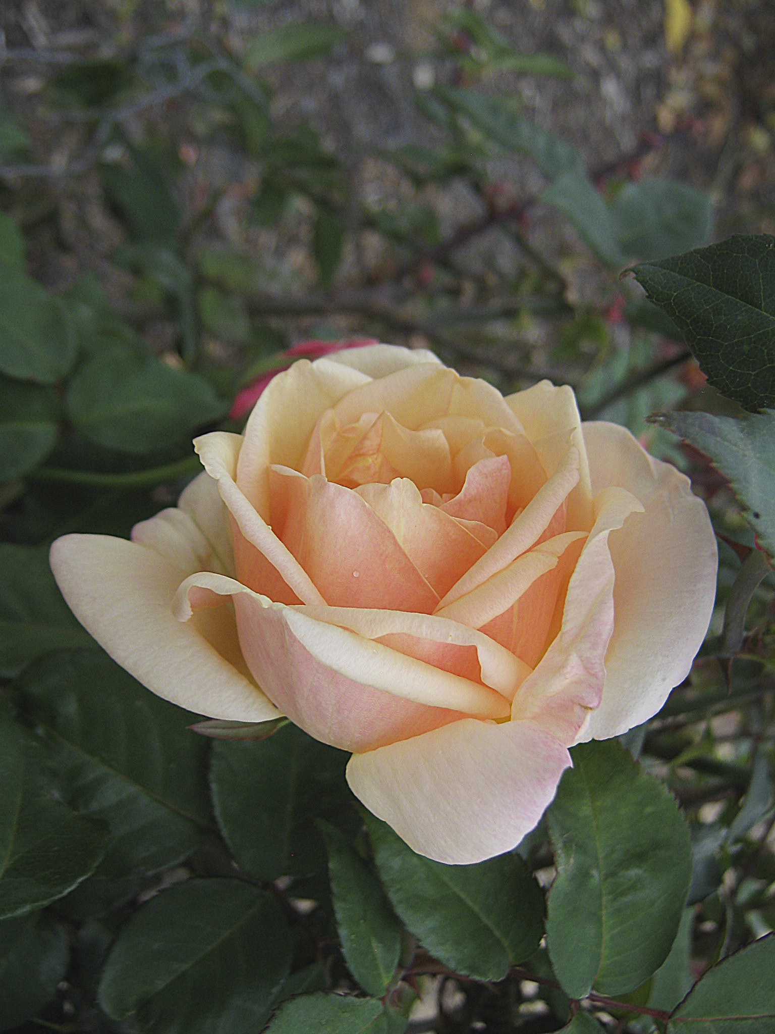 Rose 'Baxter Beauty' sport of 'Lorraine Lee' by Alister Clark